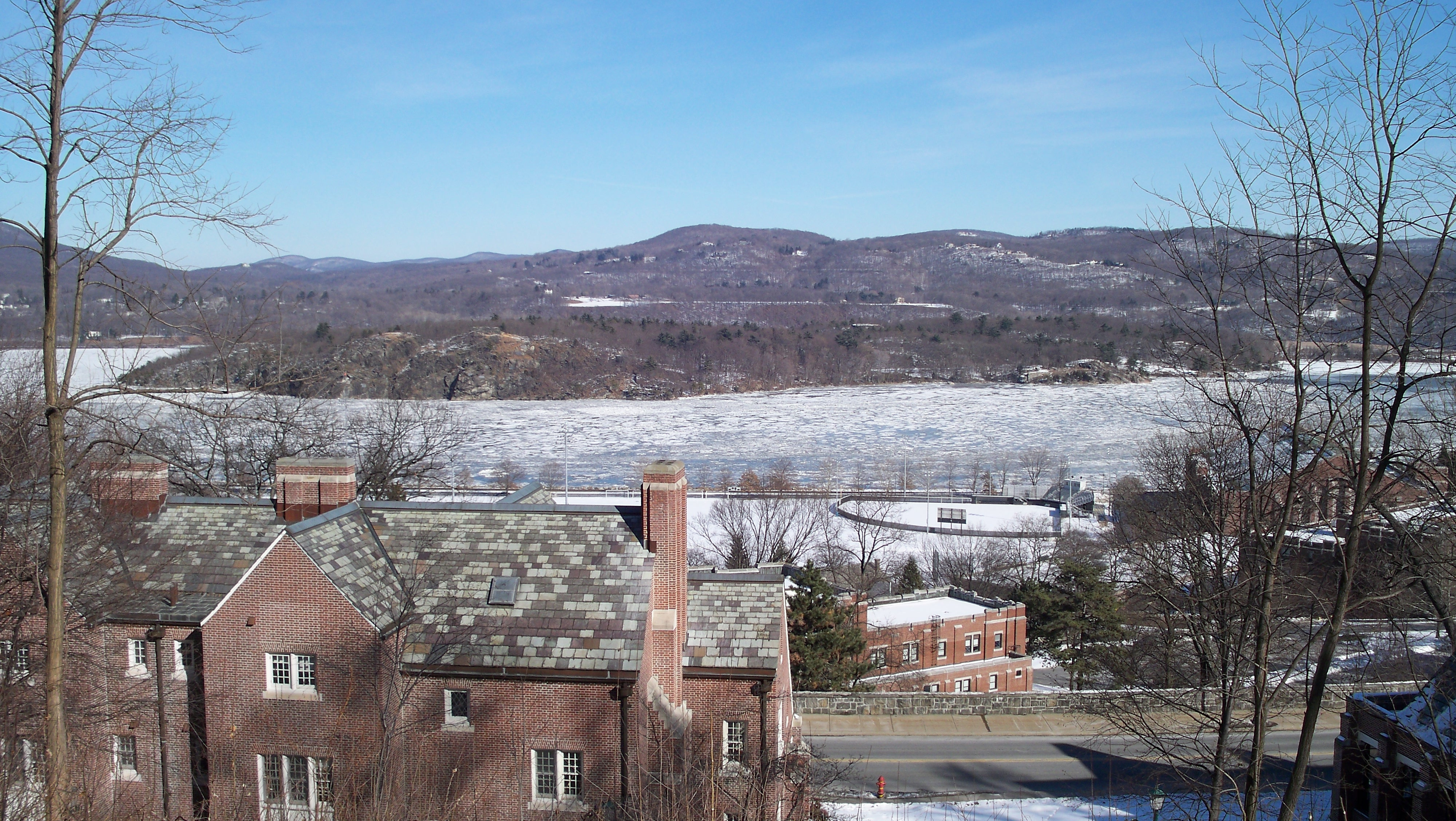 Constitution Island, NY viewed from Merritt Road, looking East